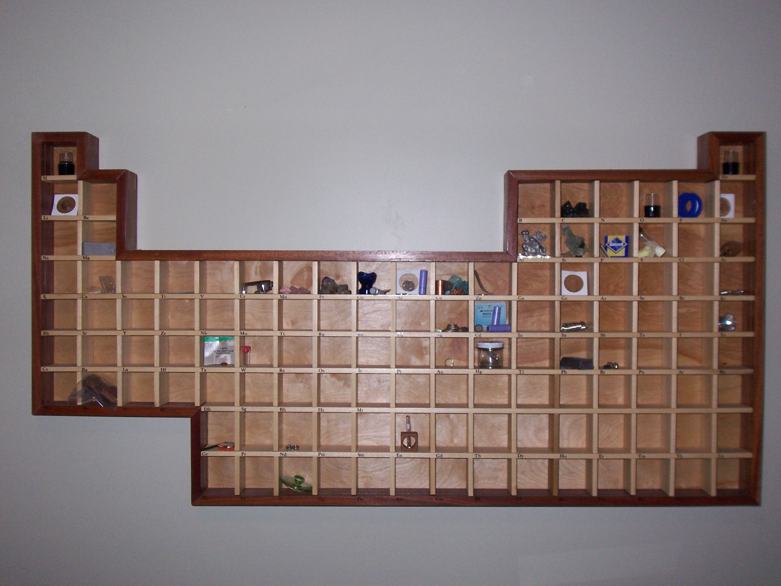 An element collection housed in a periodic table container. Samples of many of the elements are in the container.